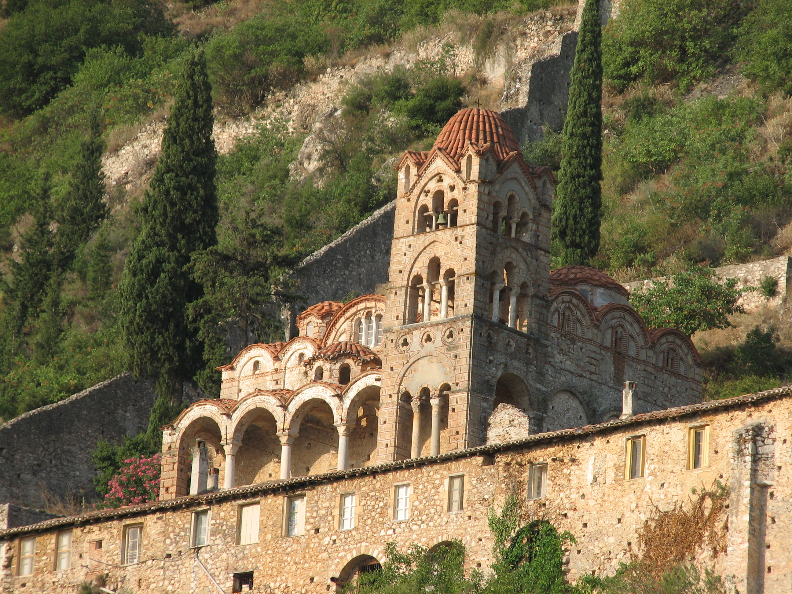 Byzantine city of Mystras,Pantanassa church.